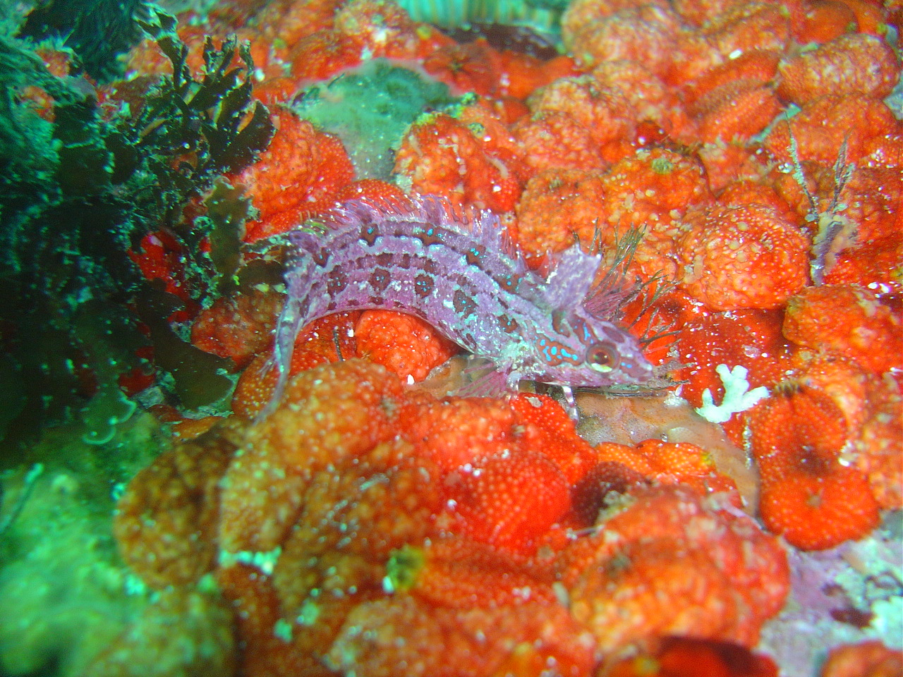 Blue spotted Klipfish at the Castle Rocks restricted area on the False Bay coast of the Cape Peninsula, near Cape Town in the Western Cape province of South Africa.